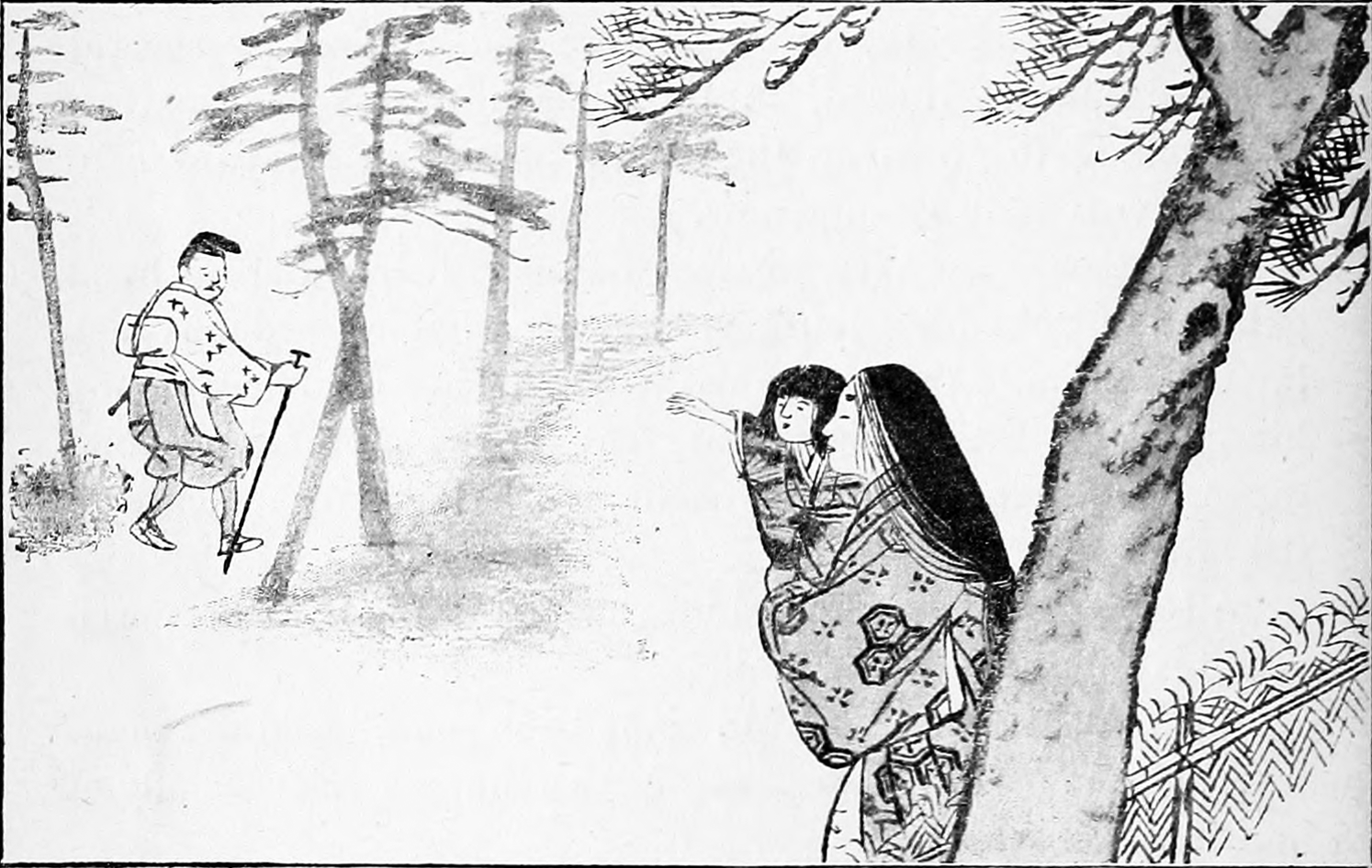 Image from The Japanese Fairy Book